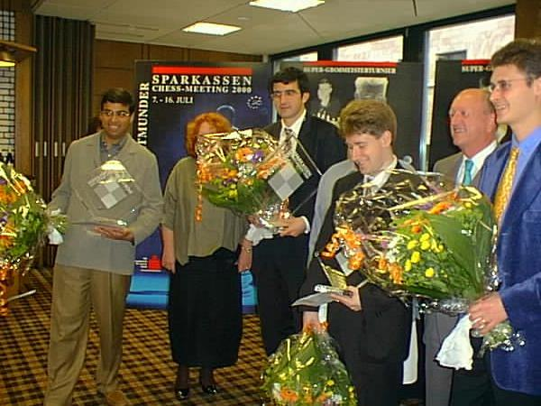 Victory ceremony: Viswanathan Anand, Vladimir Kramnik, Michael Adams and Peter Leko, Dortmunder Schachtage 2000, Photographer Gerhard Hund.